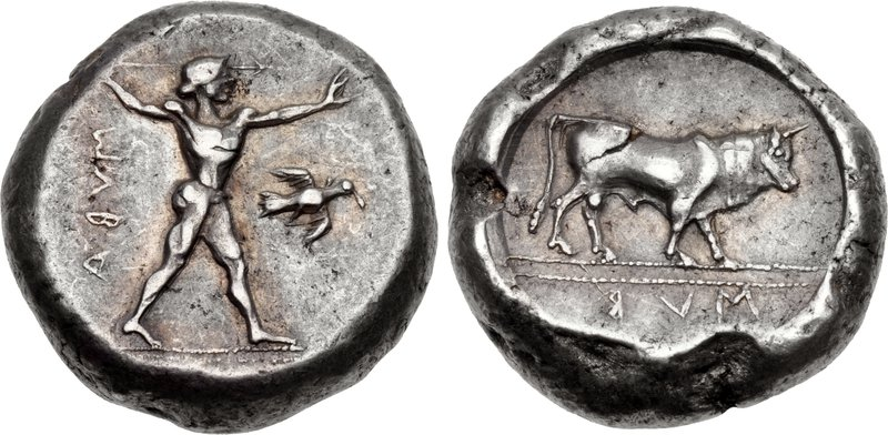 Italy, Lucania, Sybaris. Circa 453-448 BC. AR Nomos (17mm, 8.09 g, 9h). Nude Poseidon, holding trident aloft in right hand, advancing right; ABVM to left (ΣΥBA - syba in retrograde archaic greek); to right, bird flying right Bull standing right; BVM in exergue.